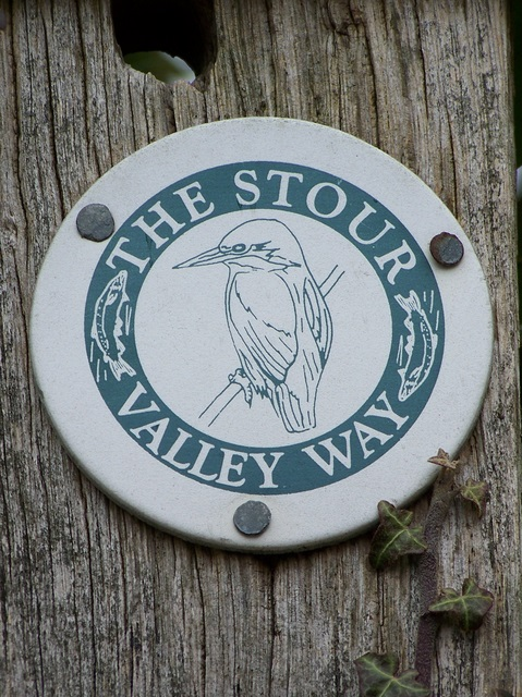 Logo for the Stour Valley Way The Stour Valley Way is a designated footpath that follows almost all of the 64 mile course of this magnificent River Stour.